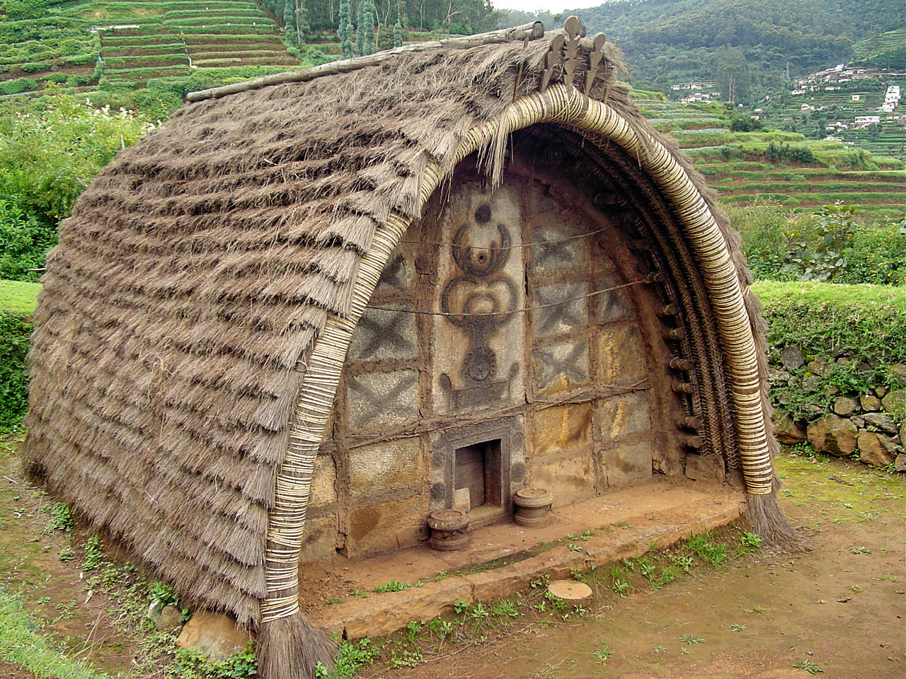 Hut of Toda tribe (Nilgiris, India)